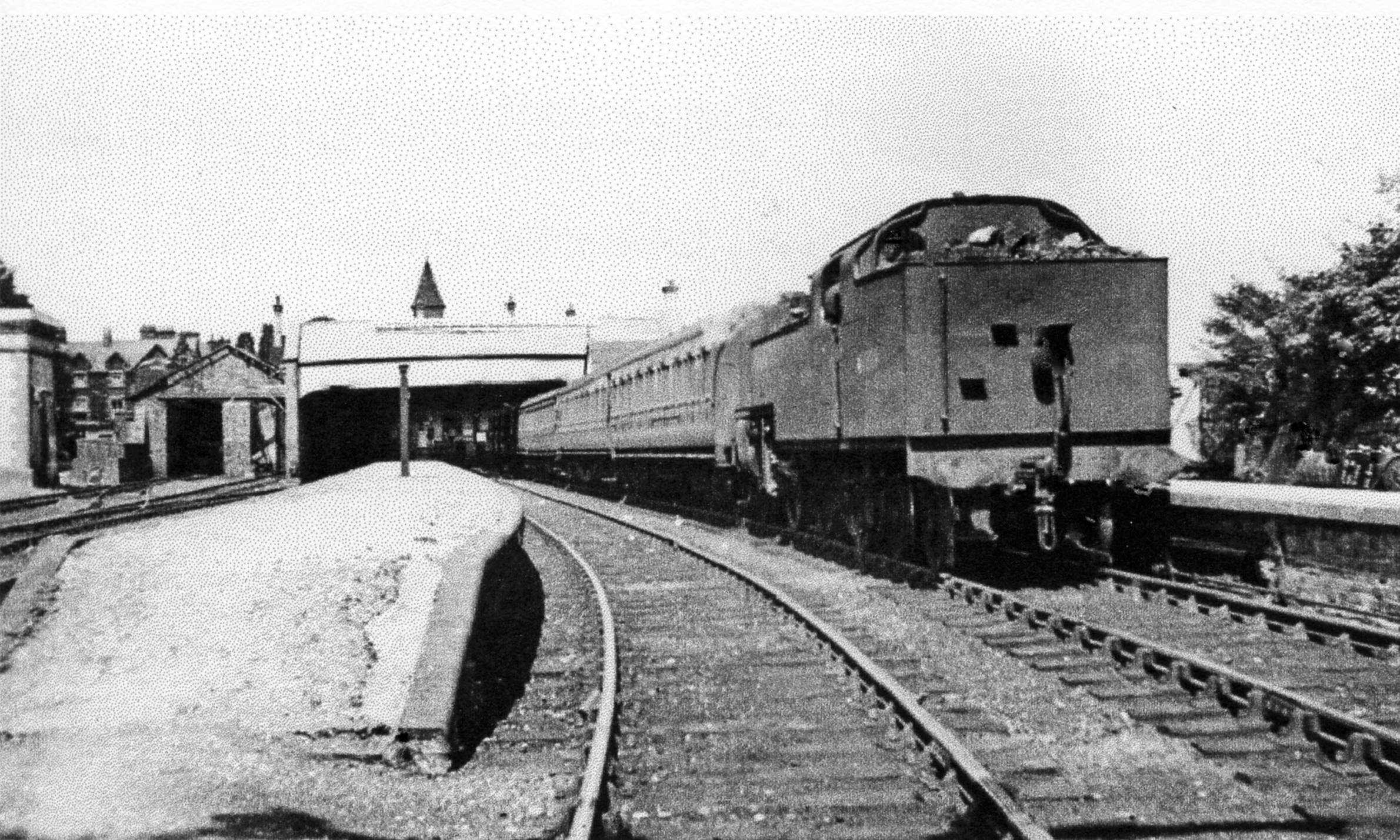 Lakeside, Windermere station, 1951View to buffer-stops, with a train for Ulverston waiting, headed by LMS Fowler class 4MT 2-6-4T No. 42376 (built 1932, withdrawn 11/62). The station and ex-Furness Railway branch from Ulverston was closed 31/8/41 - 3/6/46, then 6/9/65. However, since 2/5/73 the heritage Haverthwaite & Lakeside Railway have restored the end of the line from Haverthwaite.